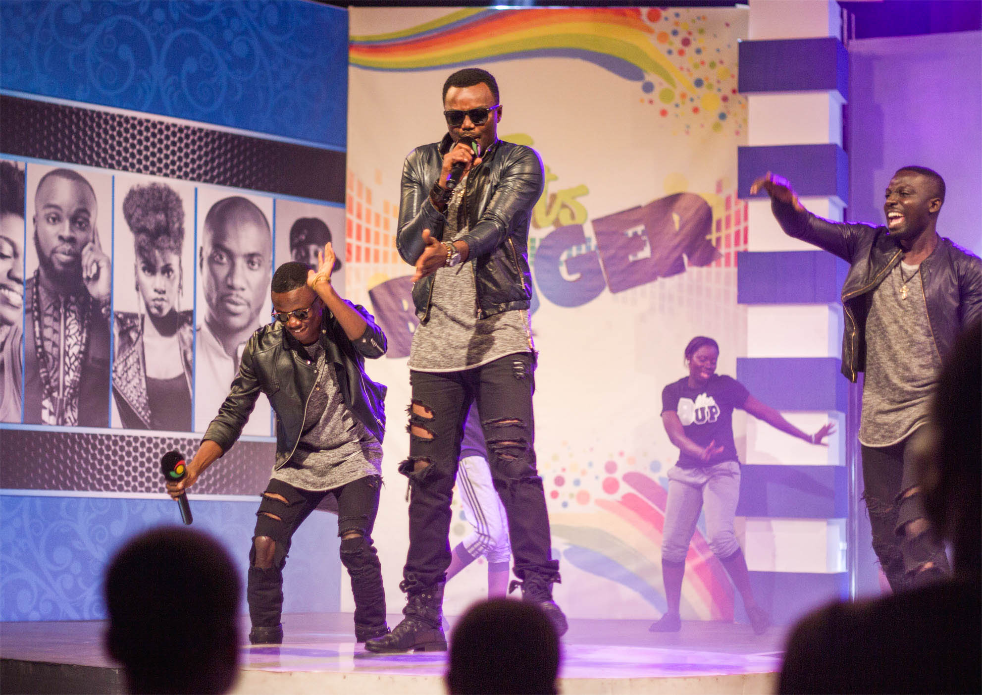 Preachers performing at TV3 Music Music, 21 June 2015